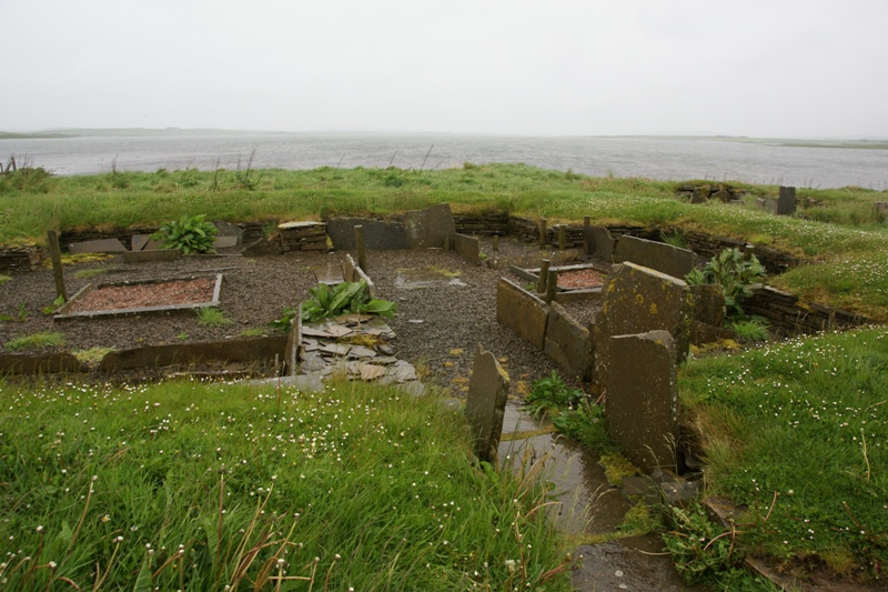 Barnhouse Settlement, Mainland, Orkney, Scotland. House 2.